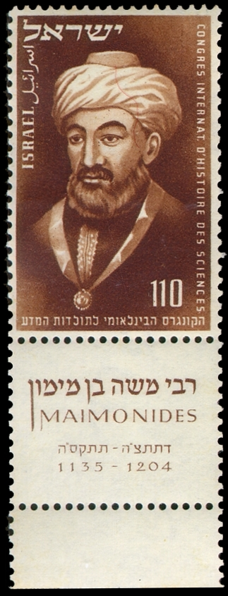 Israeli postage stamp depicting medieval Jewish scientist and philosopher Maimonides (Rav Moses ben Maimon, RAMBAM) issued toward Seventh International Congress of the History of Science in Jerusalem - 110 mil